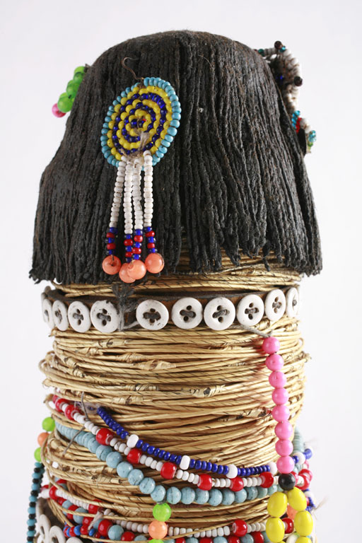 A Beaded doll in the permanent collection of The Children’s Museum of Indianapolis.